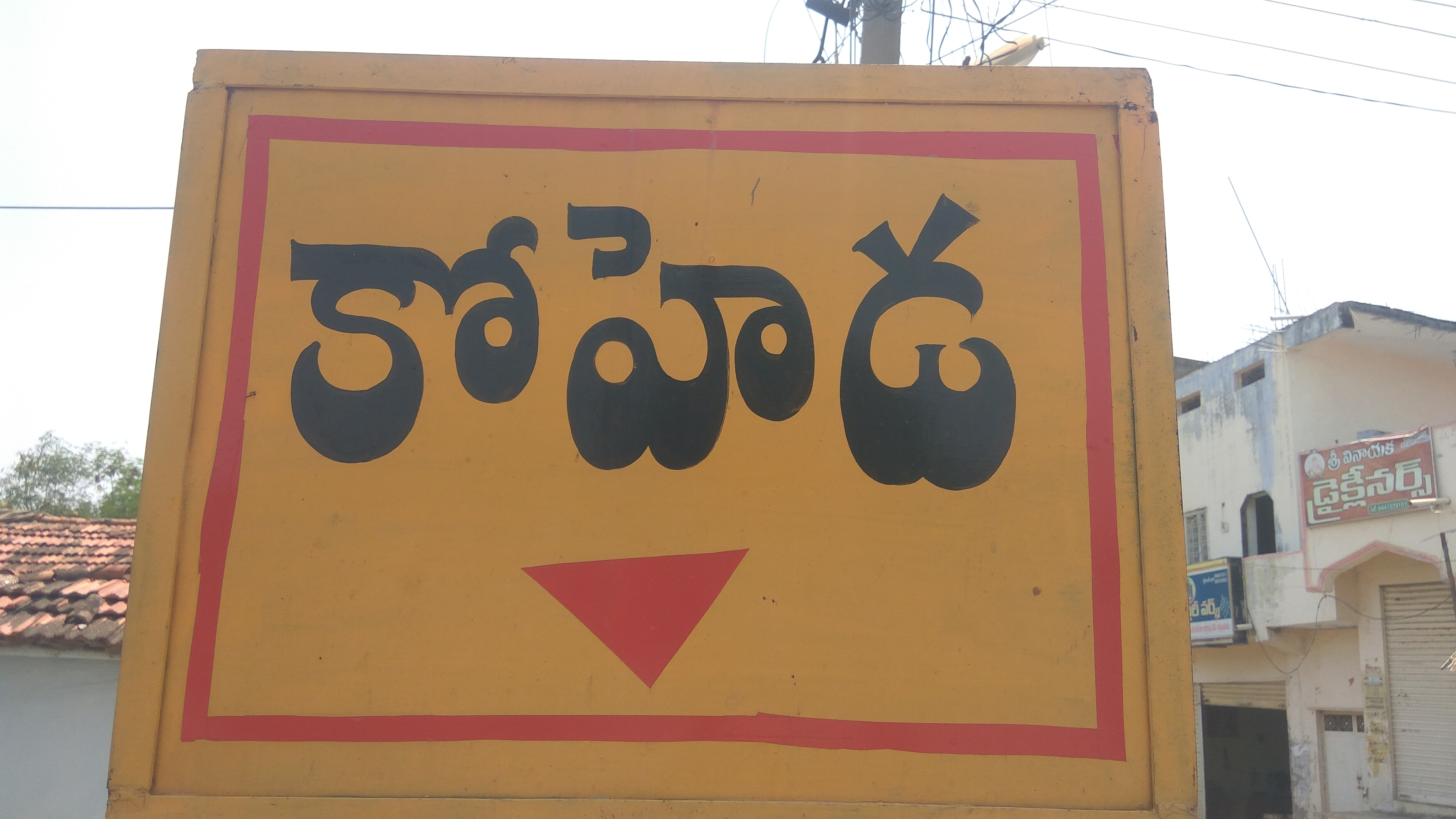 Name Plate of Koheda Village, Siddipet District, Telangana State